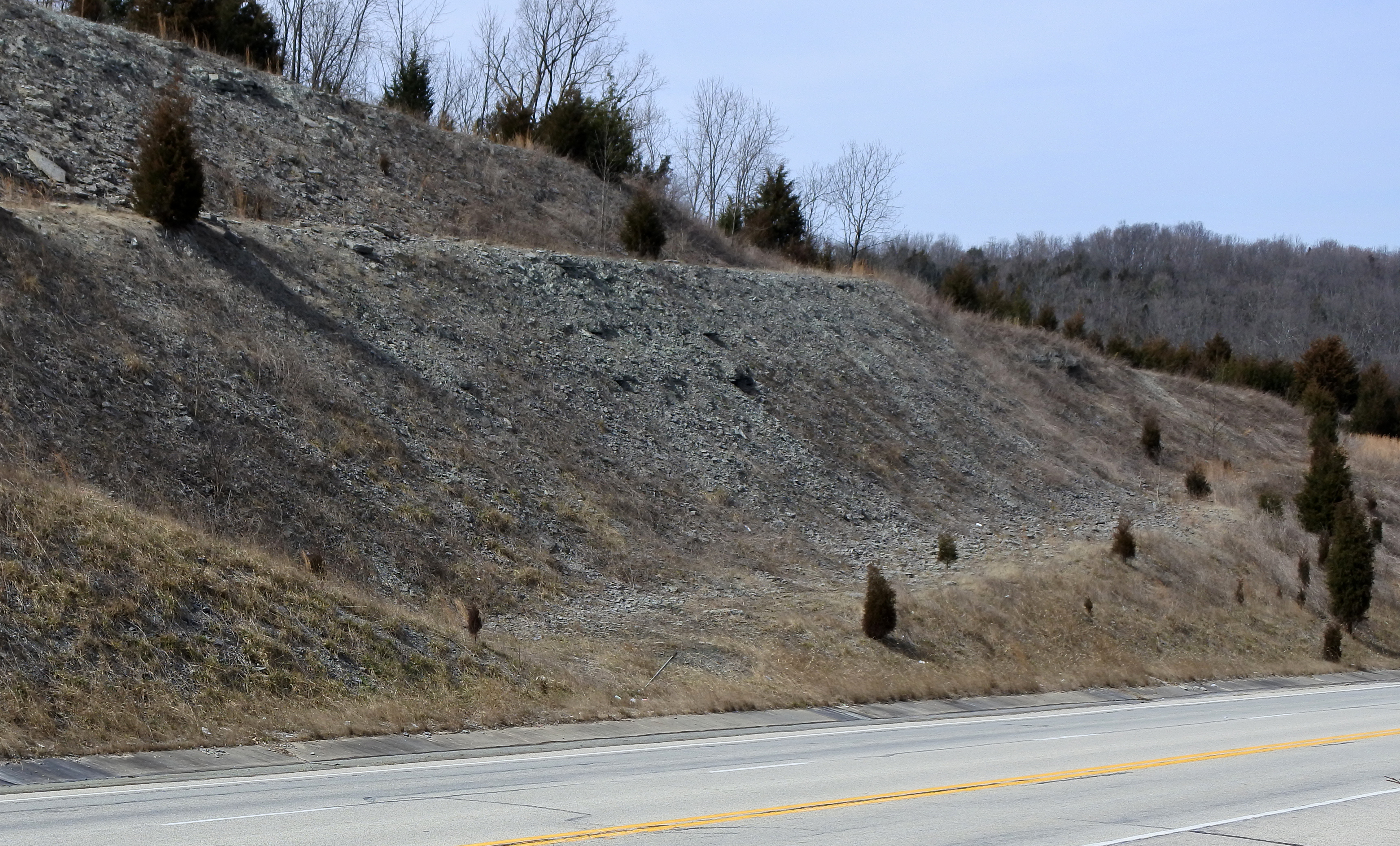 Waynesville Formation (Upper Ordovician) exposed near St. Leon, Indiana.